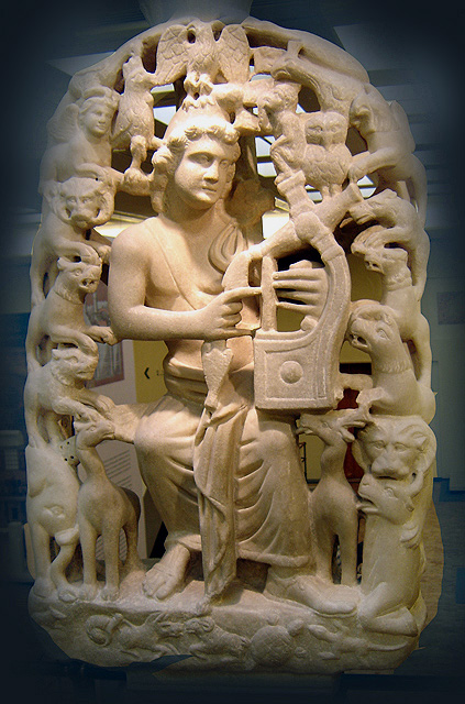 Late Roman statuette of Orpheus with the lyre, surrounded by beasts (4th century), from Aegina, now on display in the Byzantine and Christian Museum in Athens. Background edited.